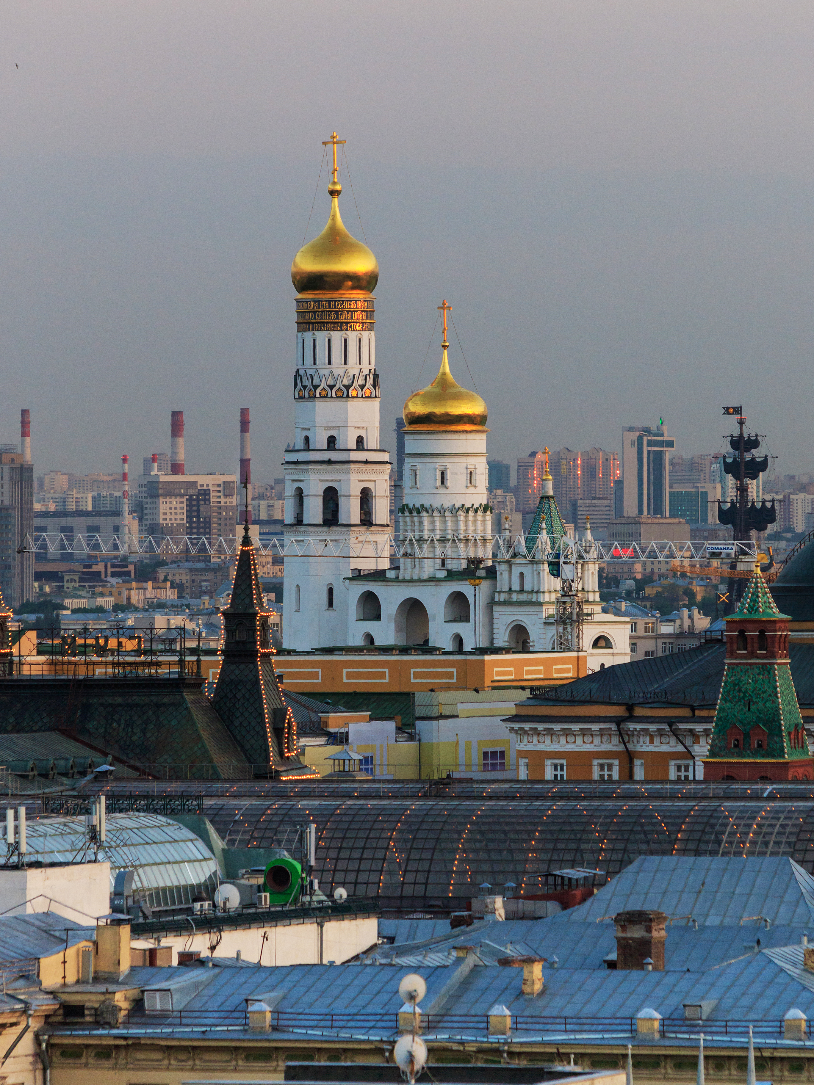 View from the Panoramic view point of the Central Children’s Store at Lubyanka Square in Moscow